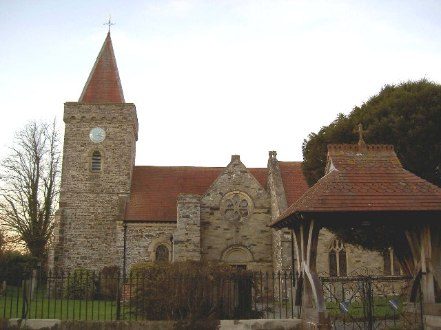 St Pauls church, Filleigh.